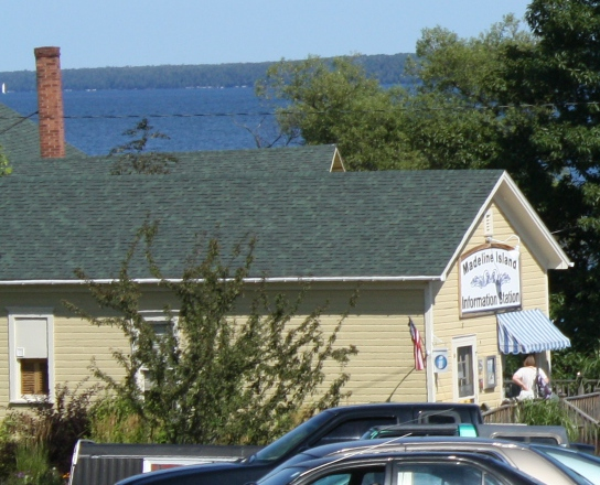 The Booth Cooperage, listed on the National Register of Historic Places.